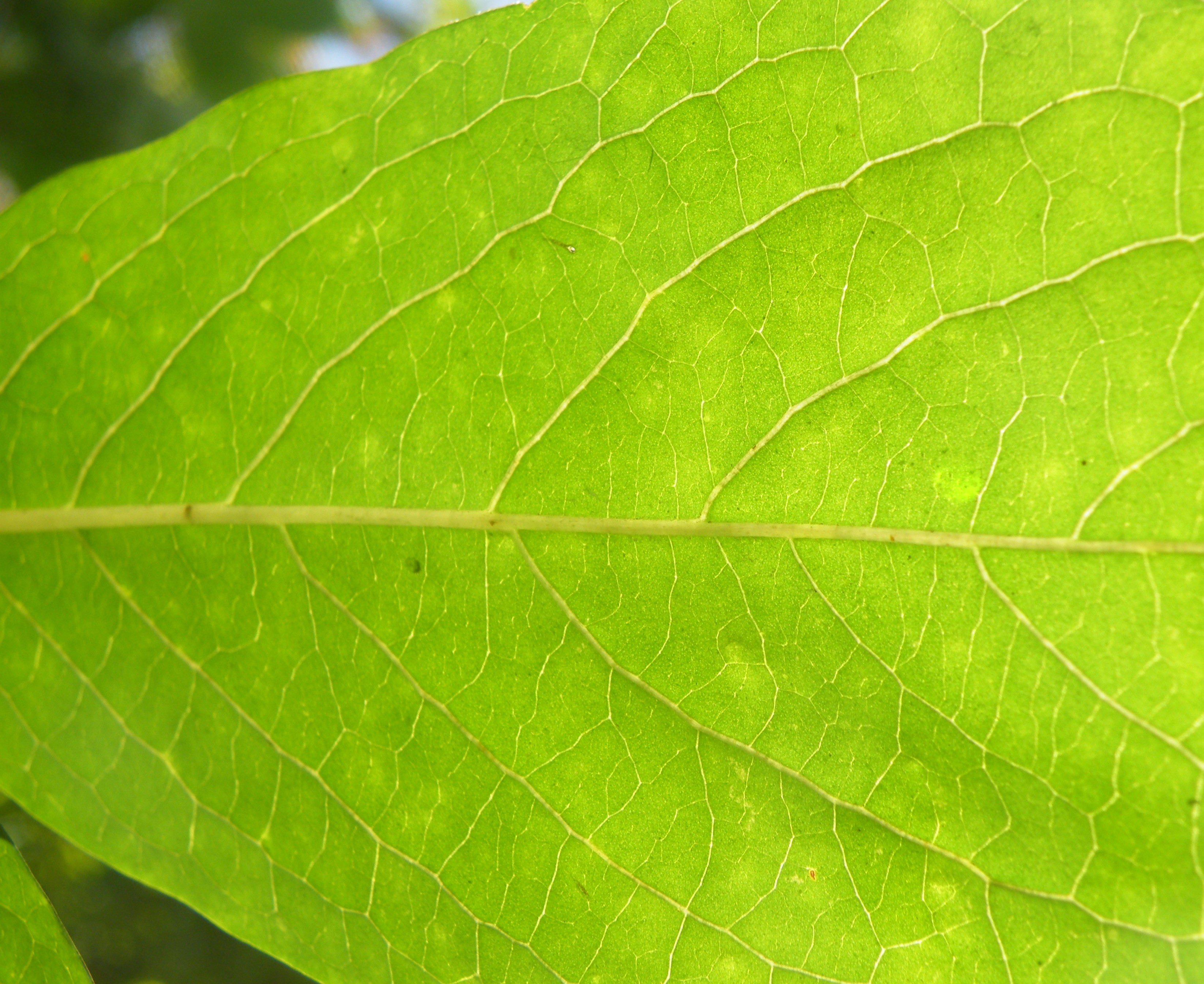 Diospyros lotus, with common names date-plum, Caucasian persimmon, or lilac persimmon, is a widely cultivated species of the genus Diospyros, native to subtropical southwest Asia and southeast Europe. Its English name derives from the small fruit, which have a taste reminiscent of both plums and dates. It is among the oldest plants in cultivation. This media file is produced by Wikipedian in Residence in Botanical Garden Jevremovac in 2015.